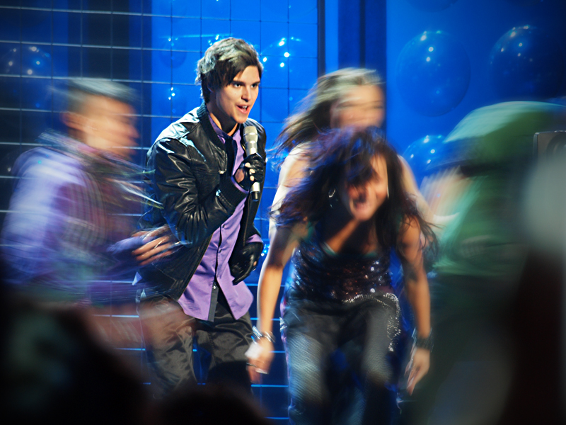 Eric Saade performing "Manboy" in Sandviken during Melodifestivalen 2010.